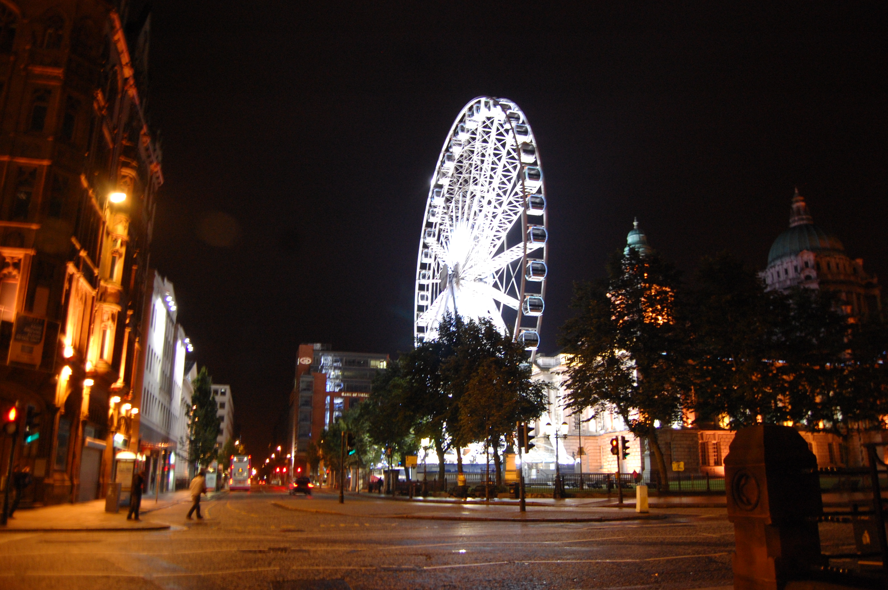 The Belfast Wheel and surrounding CIty Centre area at night.